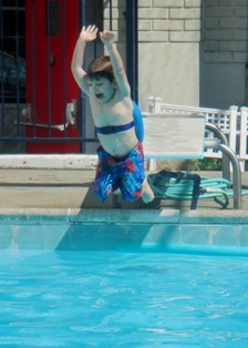 Garden School educates the whole child and ensures graduates are capable, confident and caring citizens of the world.